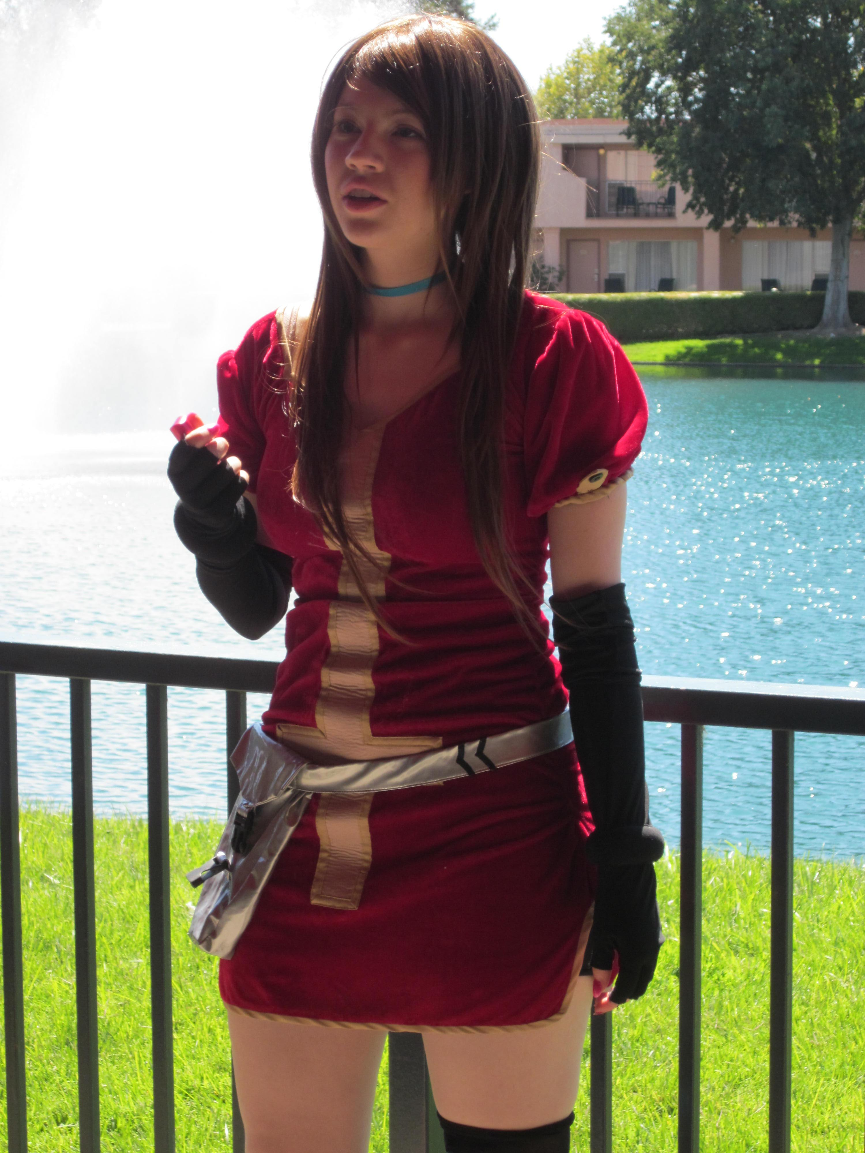 A cosplayer portraying Éclair from Kiddy Grade at Sac-Anime in Sacramento, California.